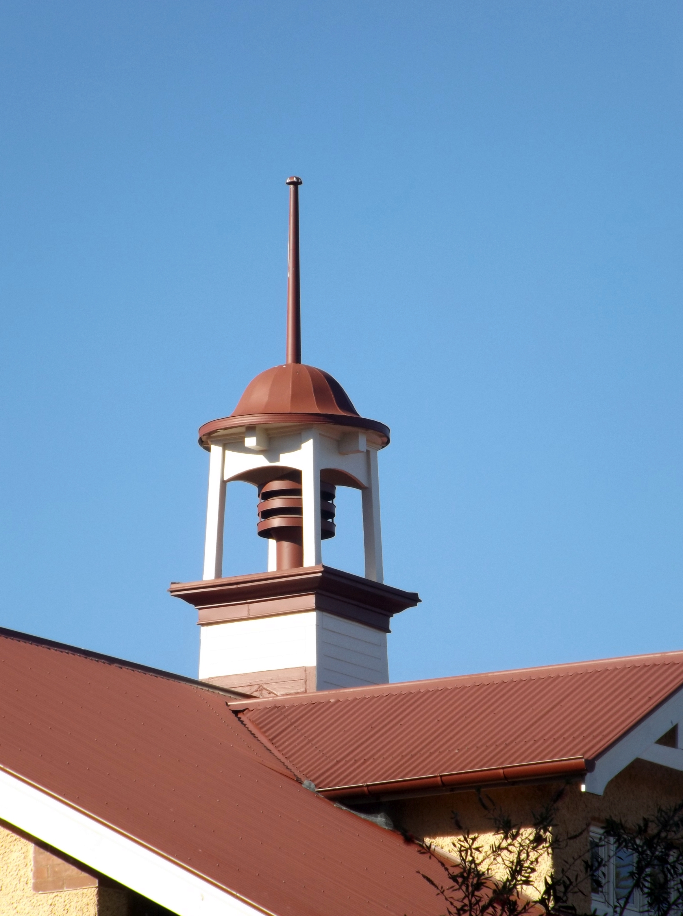 Photo of the rooftop of Wooloowin State School at Lutwyche, Brisbane, Queensland, Australia.